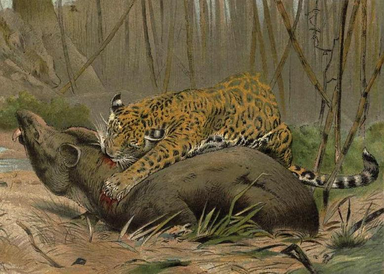 Jaguar attacking tapir